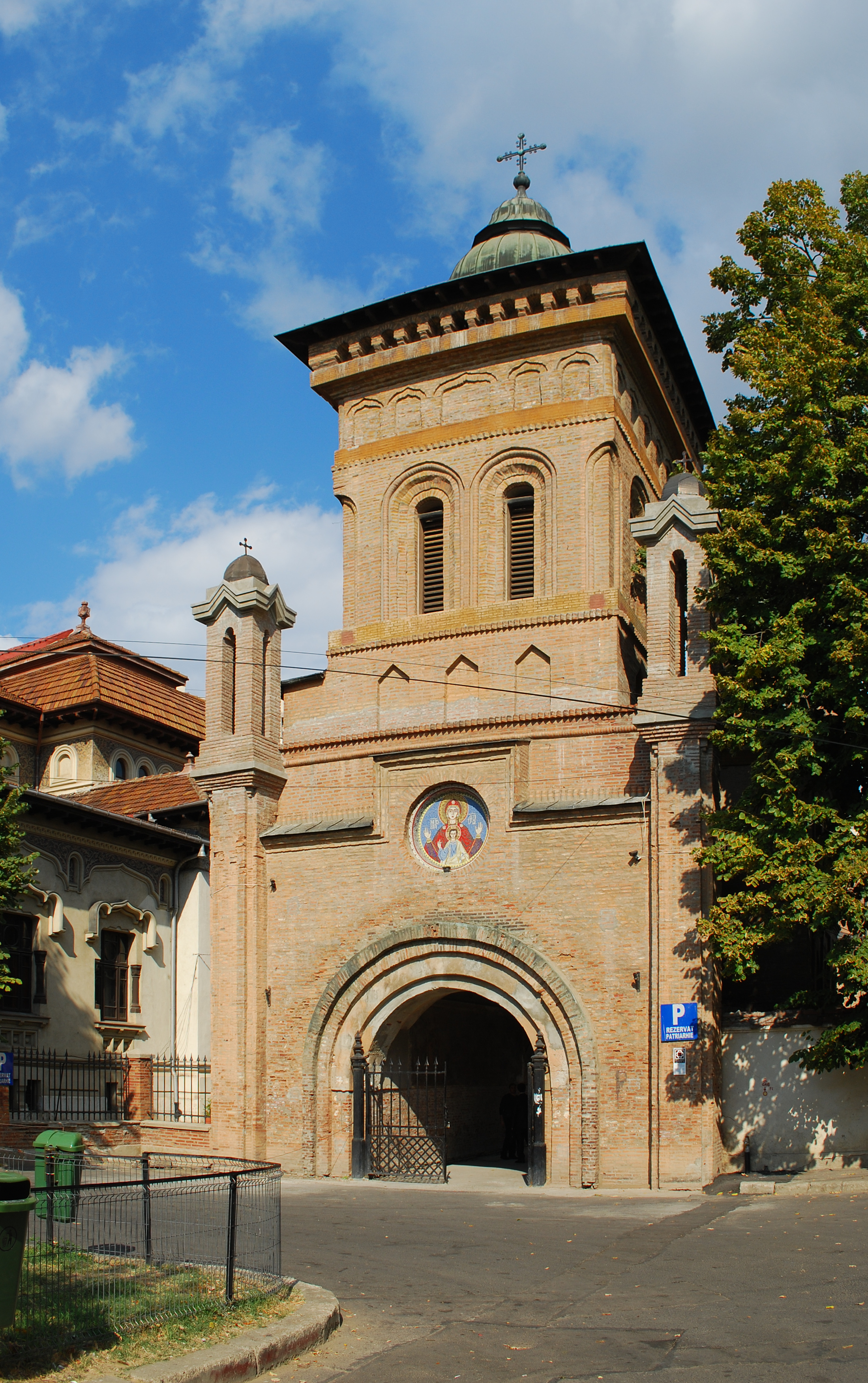 Belfry at the Antim monastery in Bucharest, RomaniaRomână: Clopotniţa mănăstirii Antim din Bucureşti, România 05